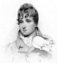 English composer, violinist and pianist George Frederick Pinto (1785-1806) by Albin Roberts Burt (1783-1842) after Andrew Robertson (1777-1845).